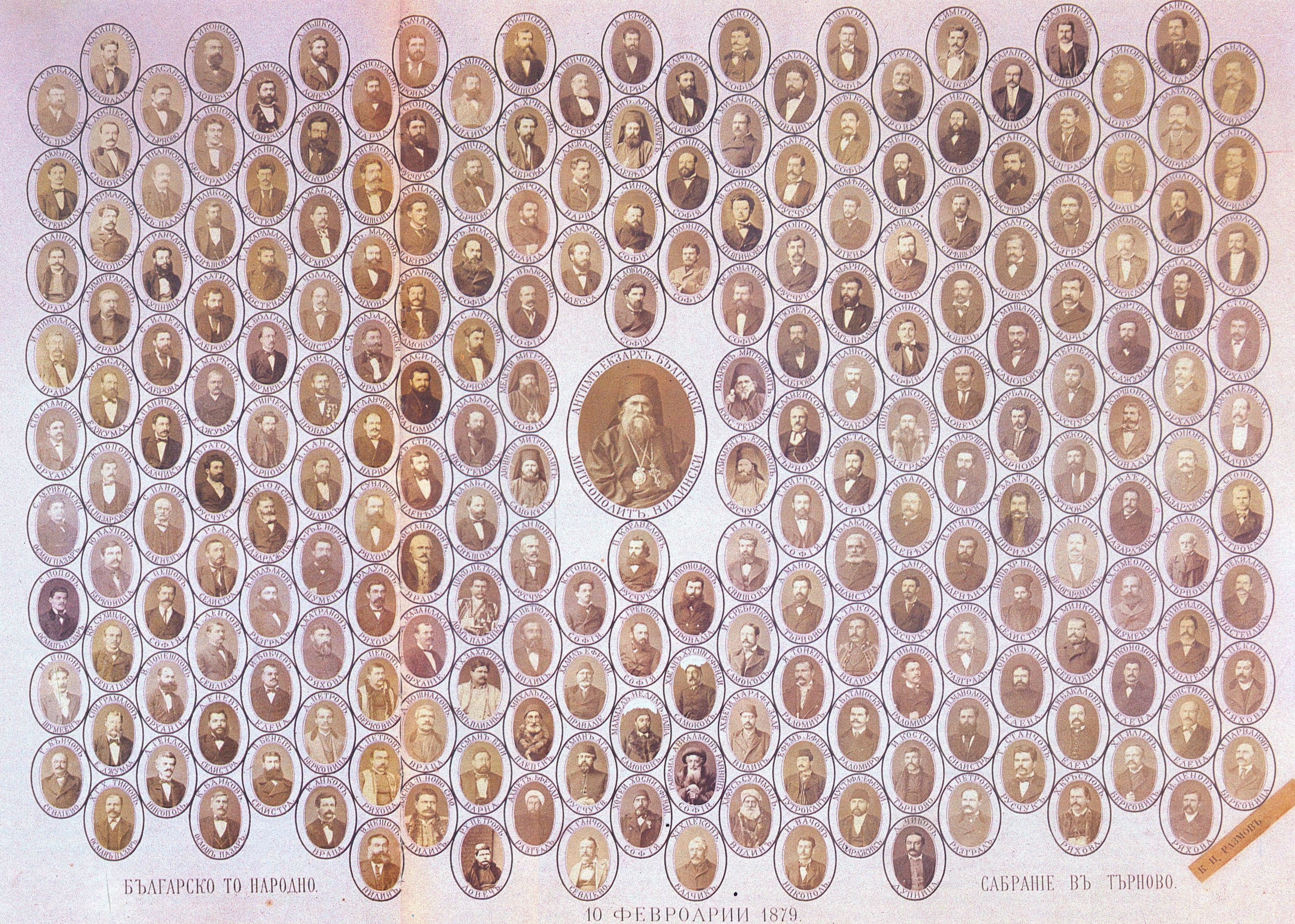 Photographs of the members of the Bulgarian Constituent Assembly in Tarnovo, 1879